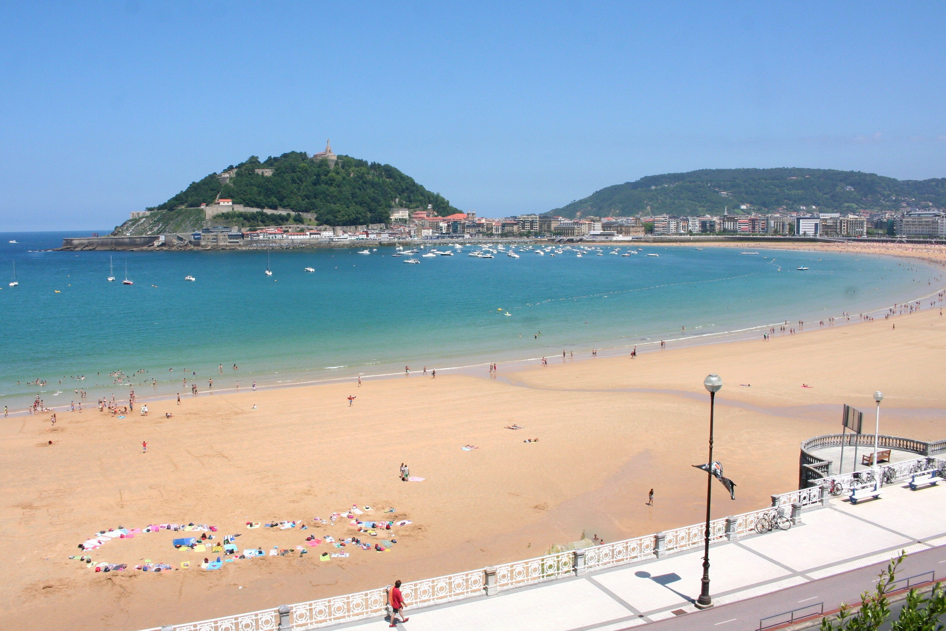 Kontxa bay